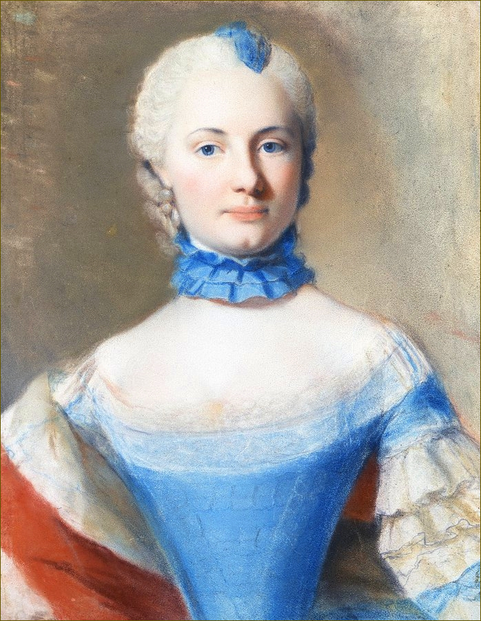 Elizabeth Frederica Sophia, Duchess of Württemberg (1732-1780)